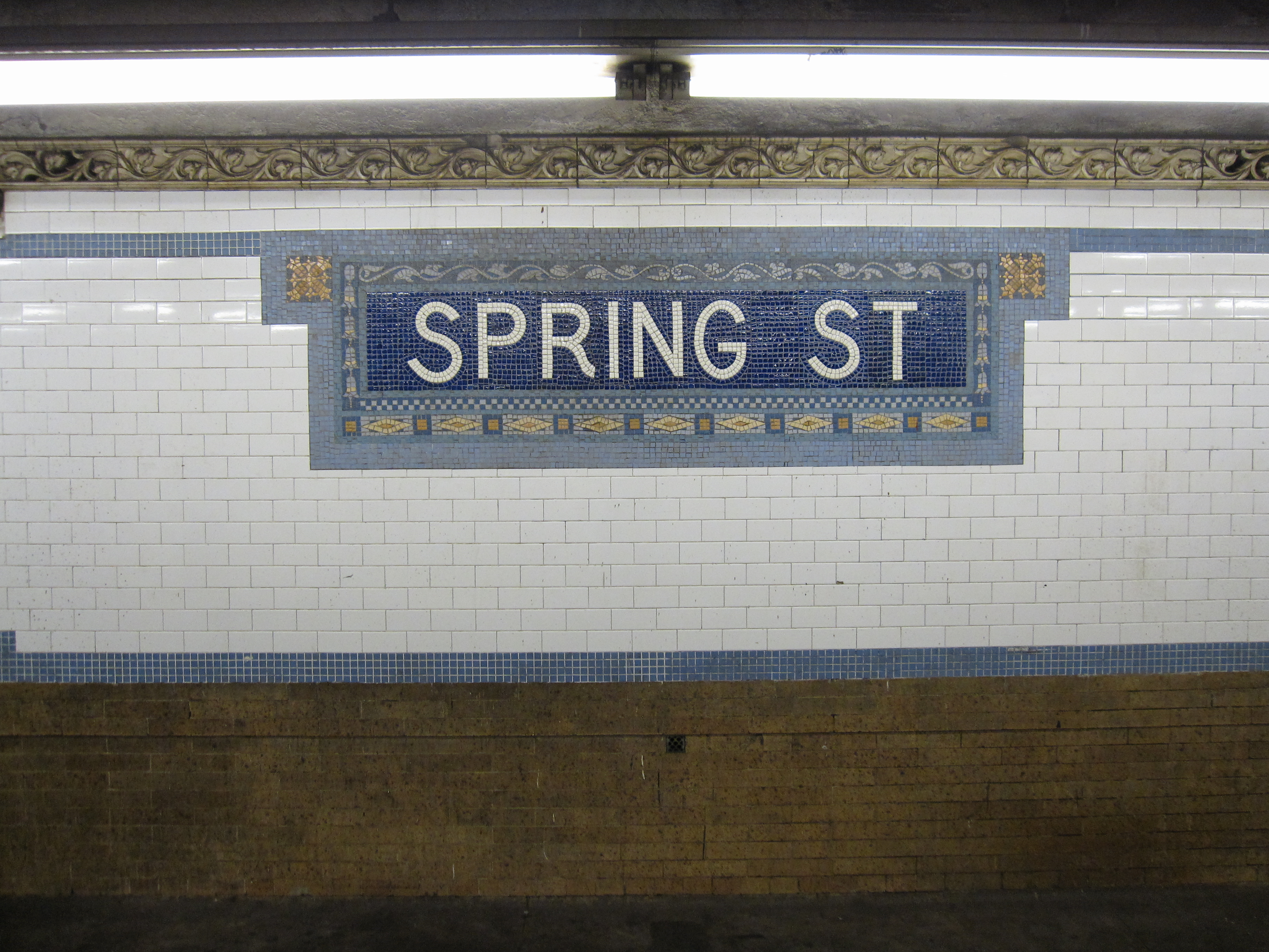 Spring Street (IRT Lexington Avenue Line)